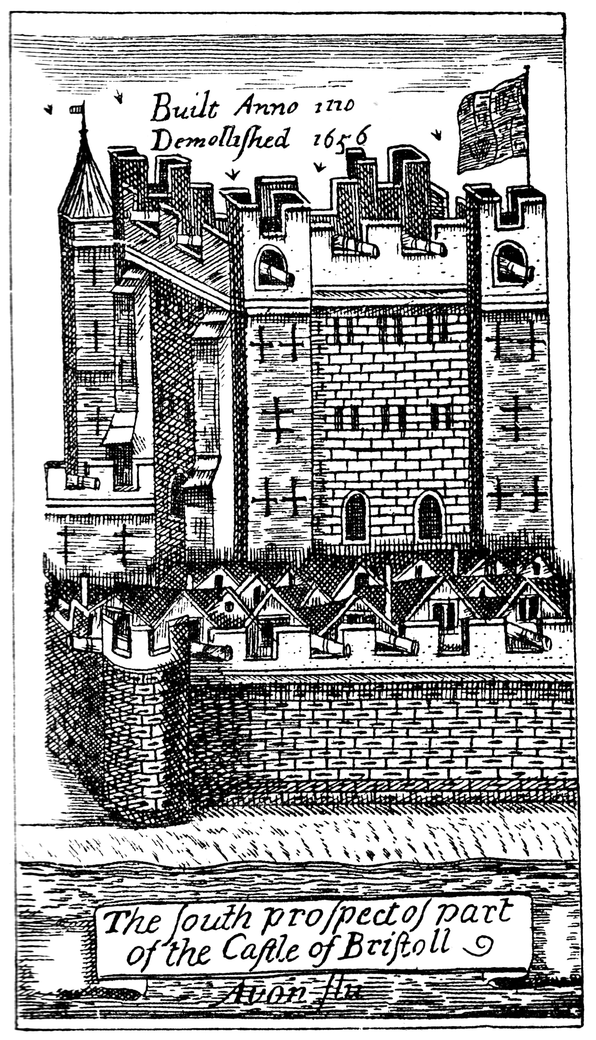 Bristol Castle south prospect